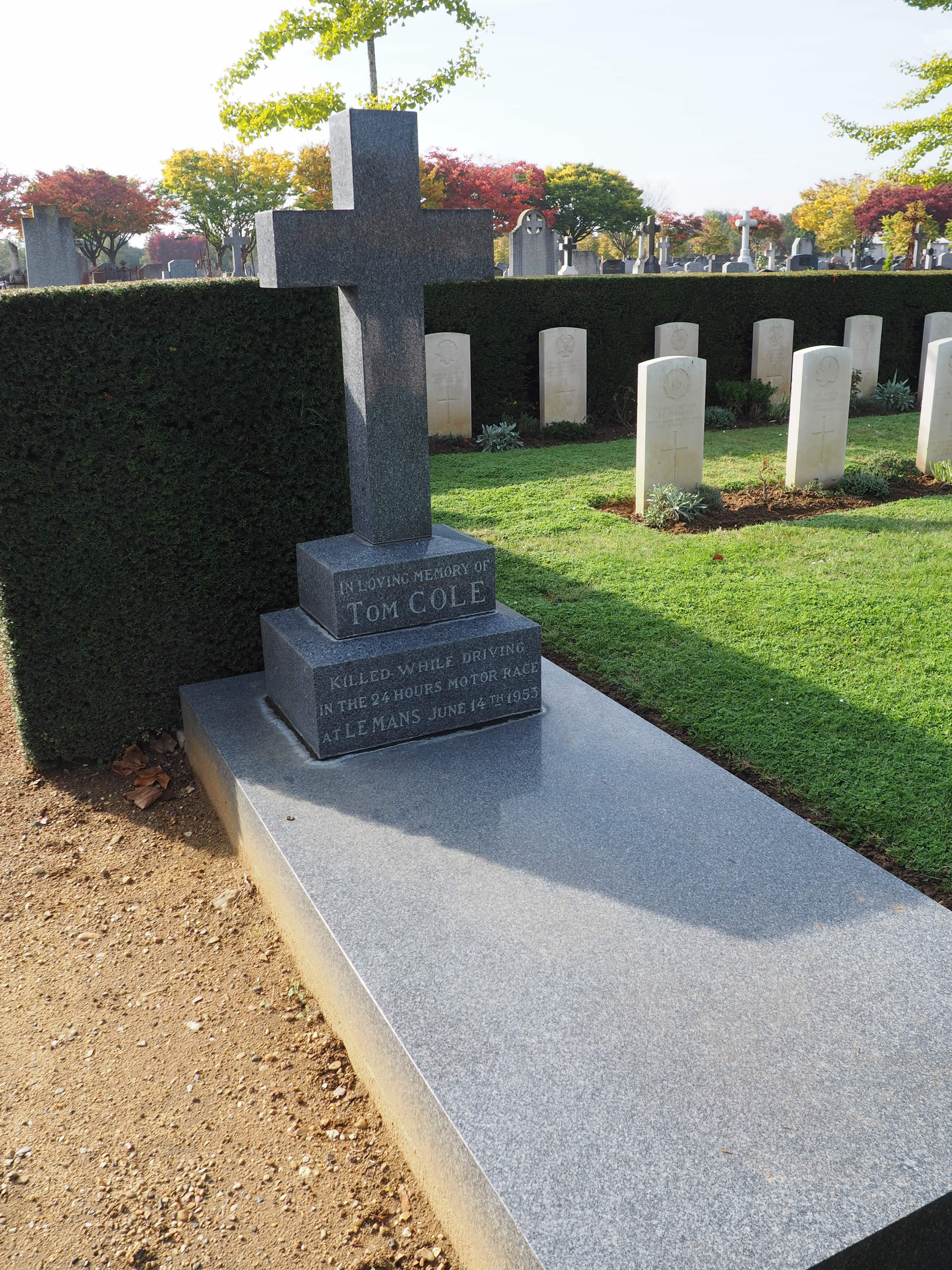 The grave of racing driver Tom Cole in the Cimmetierre De L'Ouest Le Mans